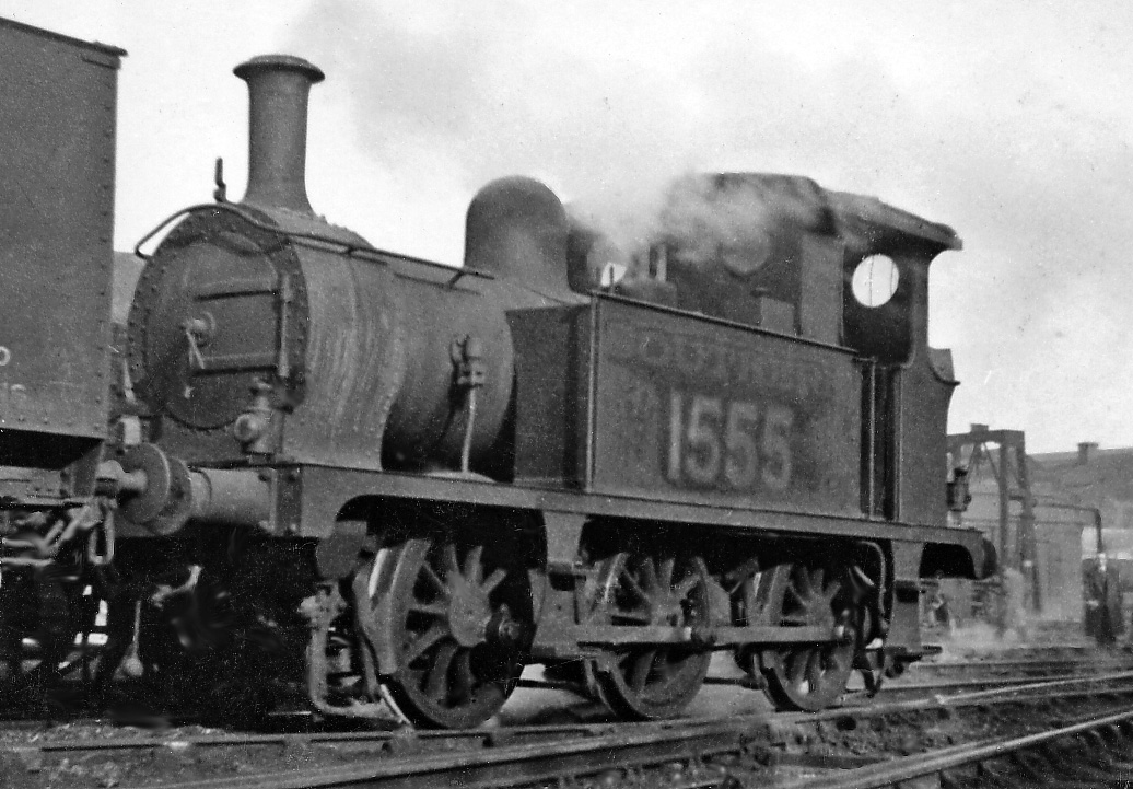 Diminutive 0-6-0T shed-pilot at Brighton Locomotive Depot. Built by Wainwright as the SE&CR P class for work on light branches, they were later used for light 'odd-job' work: No. 31555 was built 6/1910 and withdrawn 2/55. [One of my very early photographs].